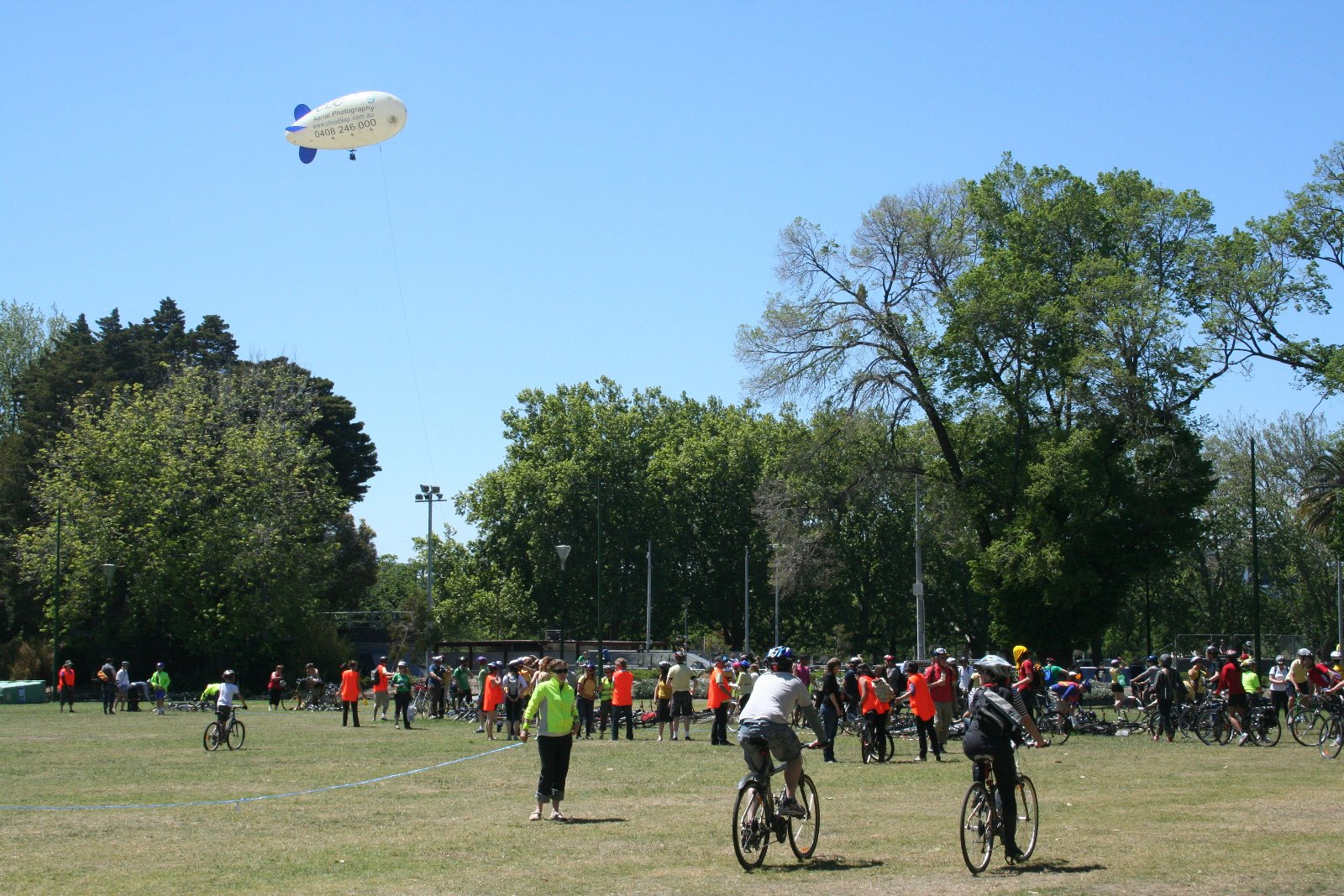 Cyclists Gather to make Human sign for 350 Climate Protest